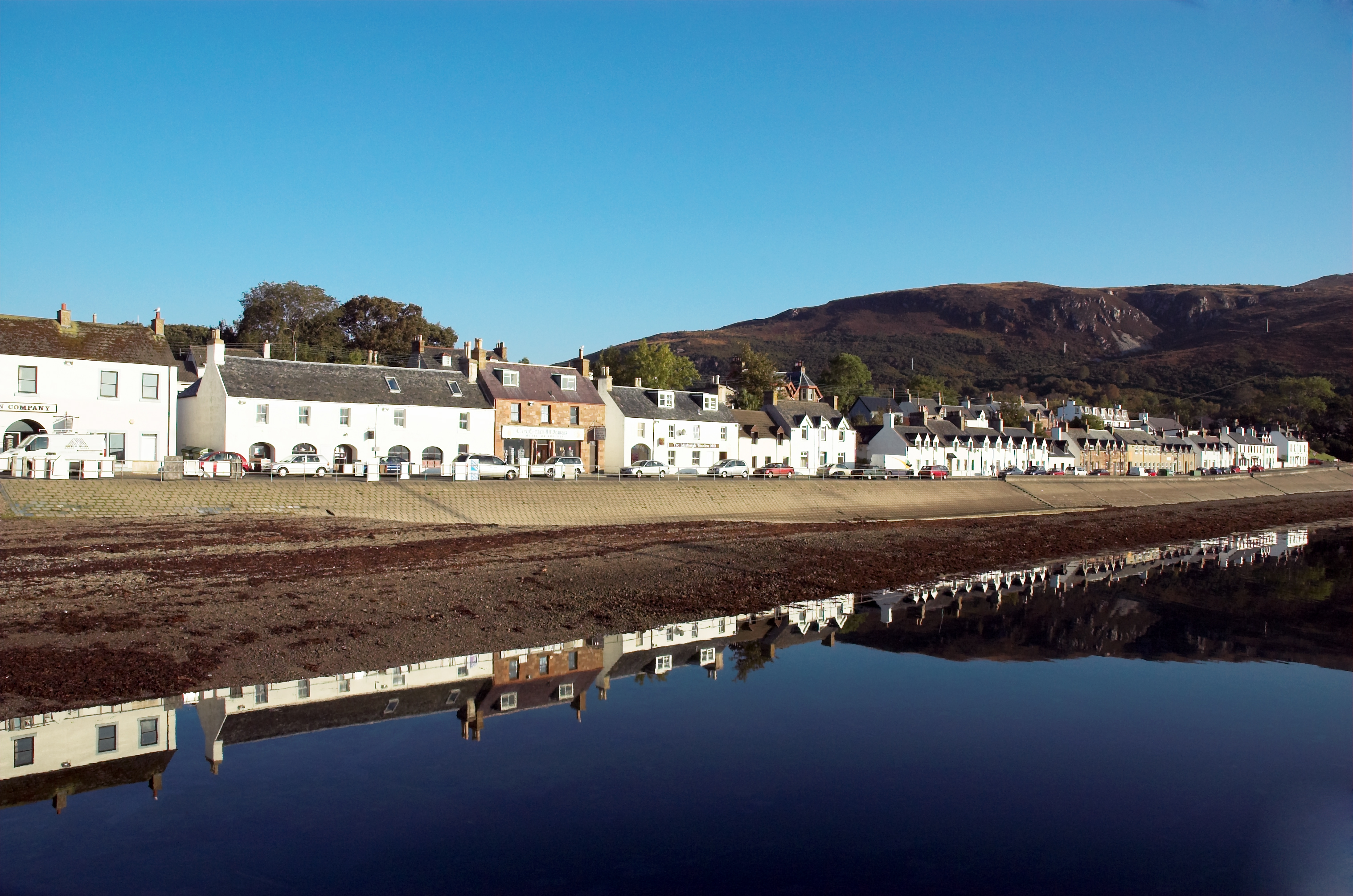 Ullapool on a sunny day.